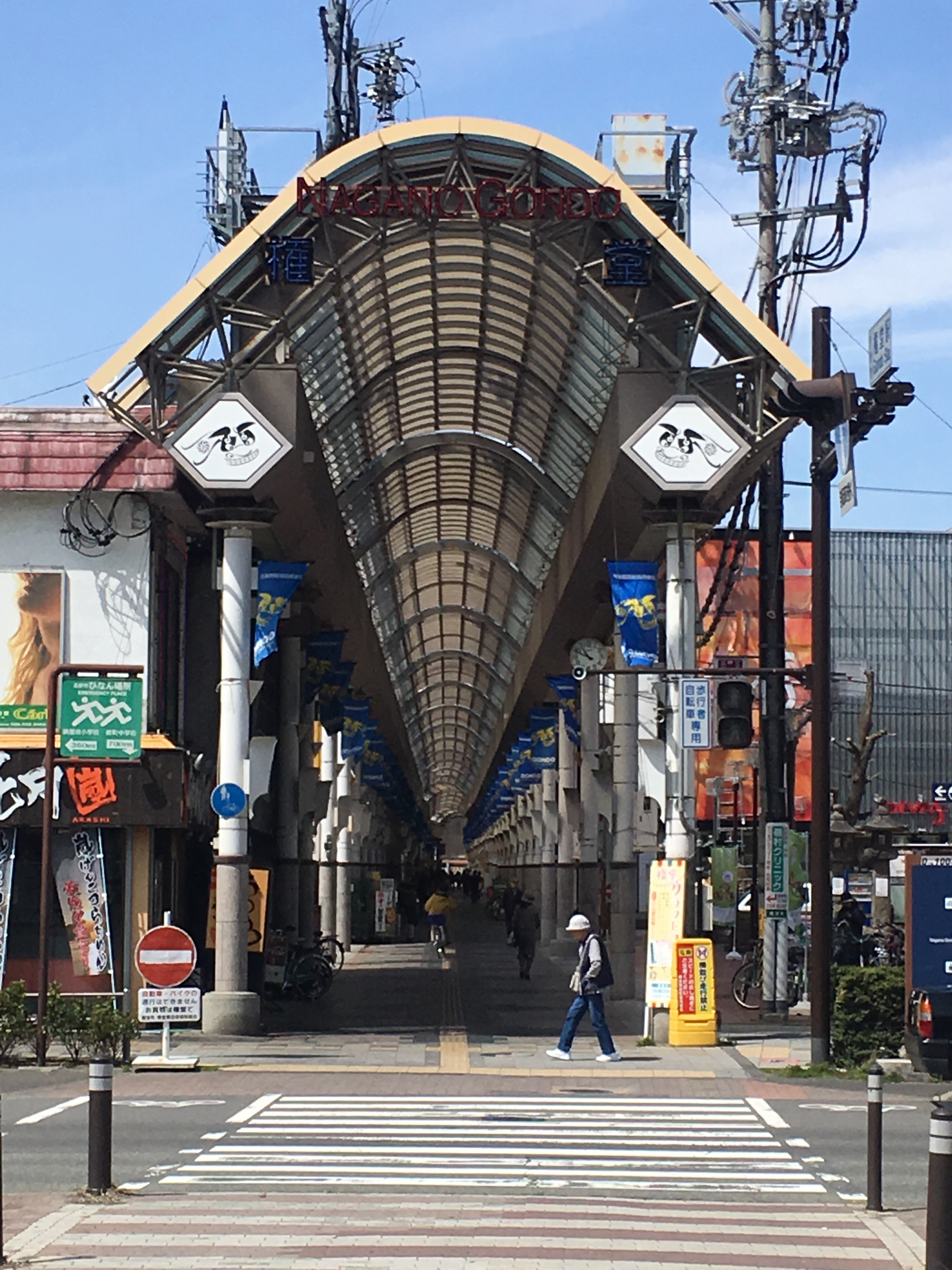 This is a photo of the east entrance to Gondo Arcade (Gondo Shopping Street) in Nagano City, Nagano.